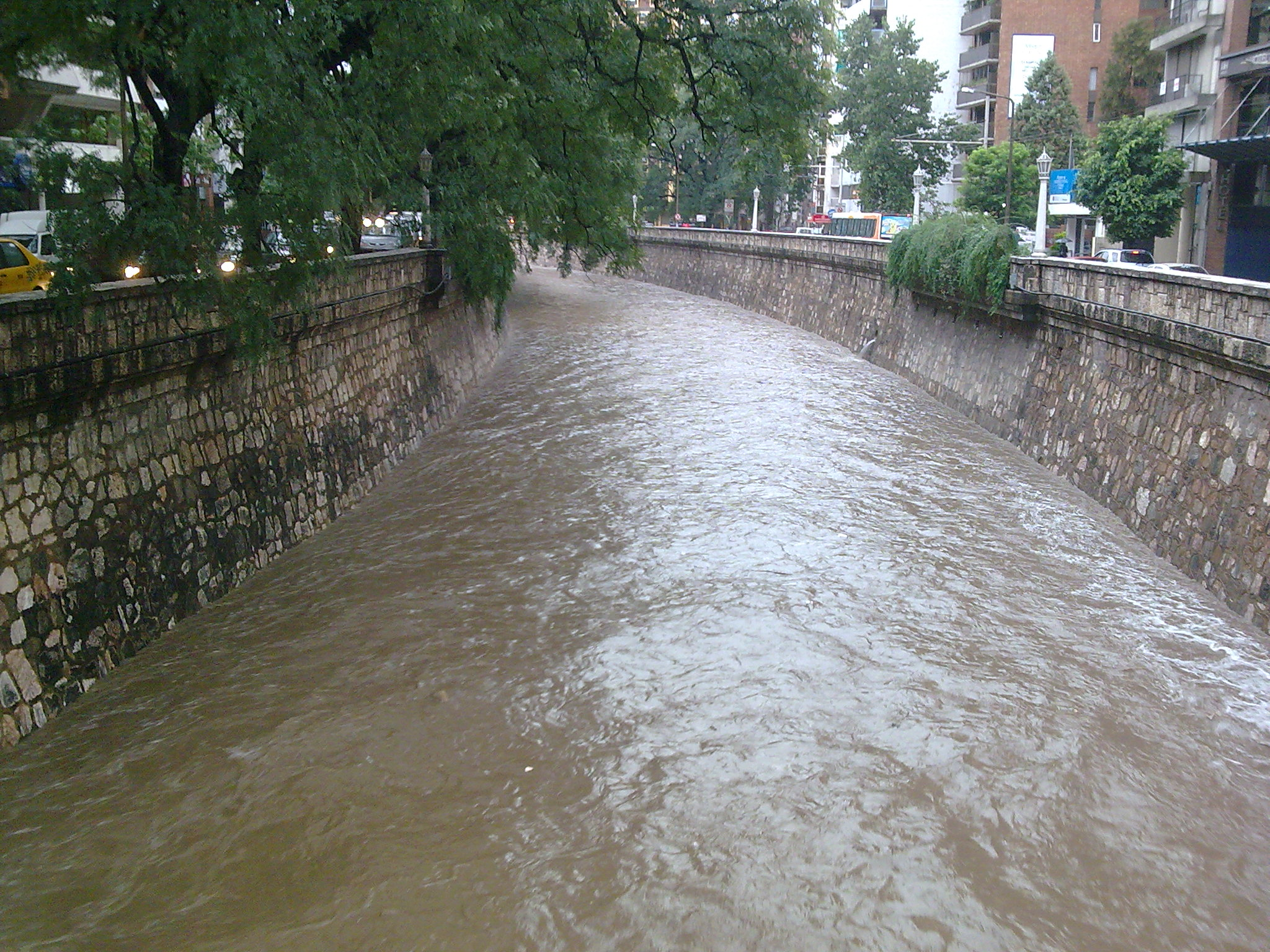 La Cañada (The Glen) during a rain. Because of these floods is that it was built. Cordoba, Argentina.